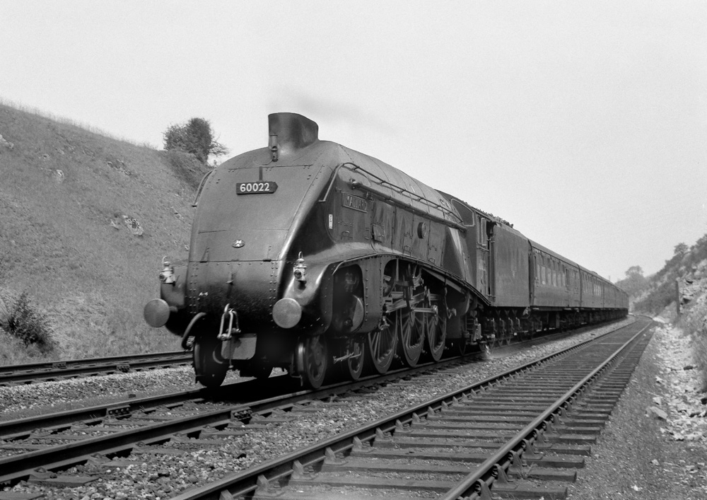 No 60022 Mallard descending Stoke Bank once again, in June 1962, thirty four years after the record breaking run. The locomotive was withdrawn from service 10 months later, in April 1963.